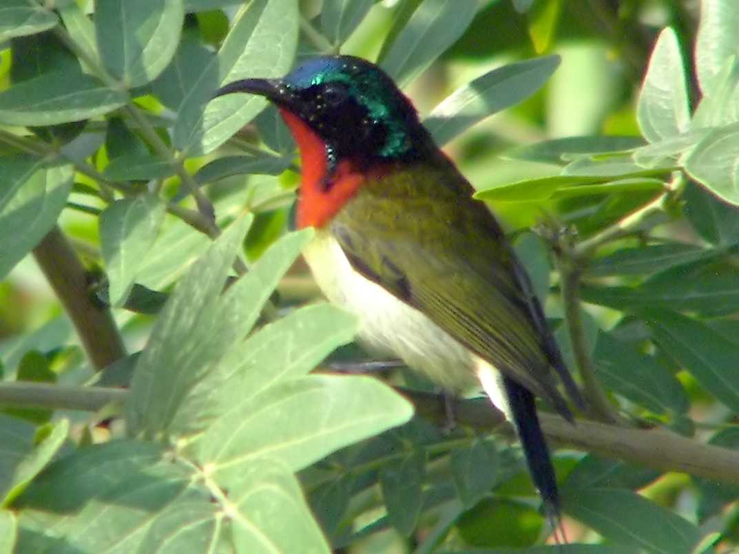 Aethopyga_christinae